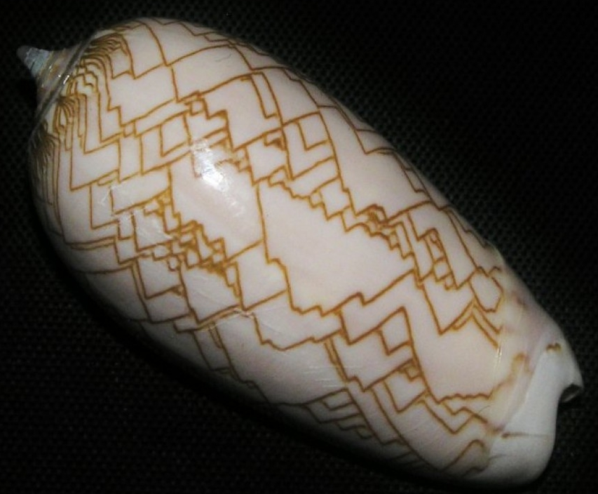 Photograph of the seashell Oliva porphyria (Linnaeus, 1758) / Origin of image: Own collection. Panama. Islas Perlas.